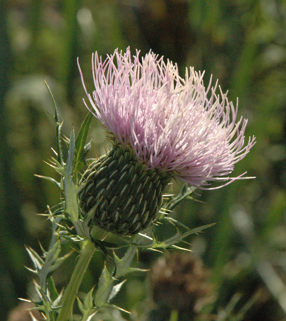 Cirsium discolor at the James Woodworth Prairie Preserve